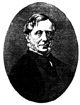 John Young, 1st Baron Lisgar, the Governor General of Canada (1869-1872)